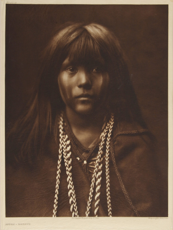 Mosa - Mohave, 1903